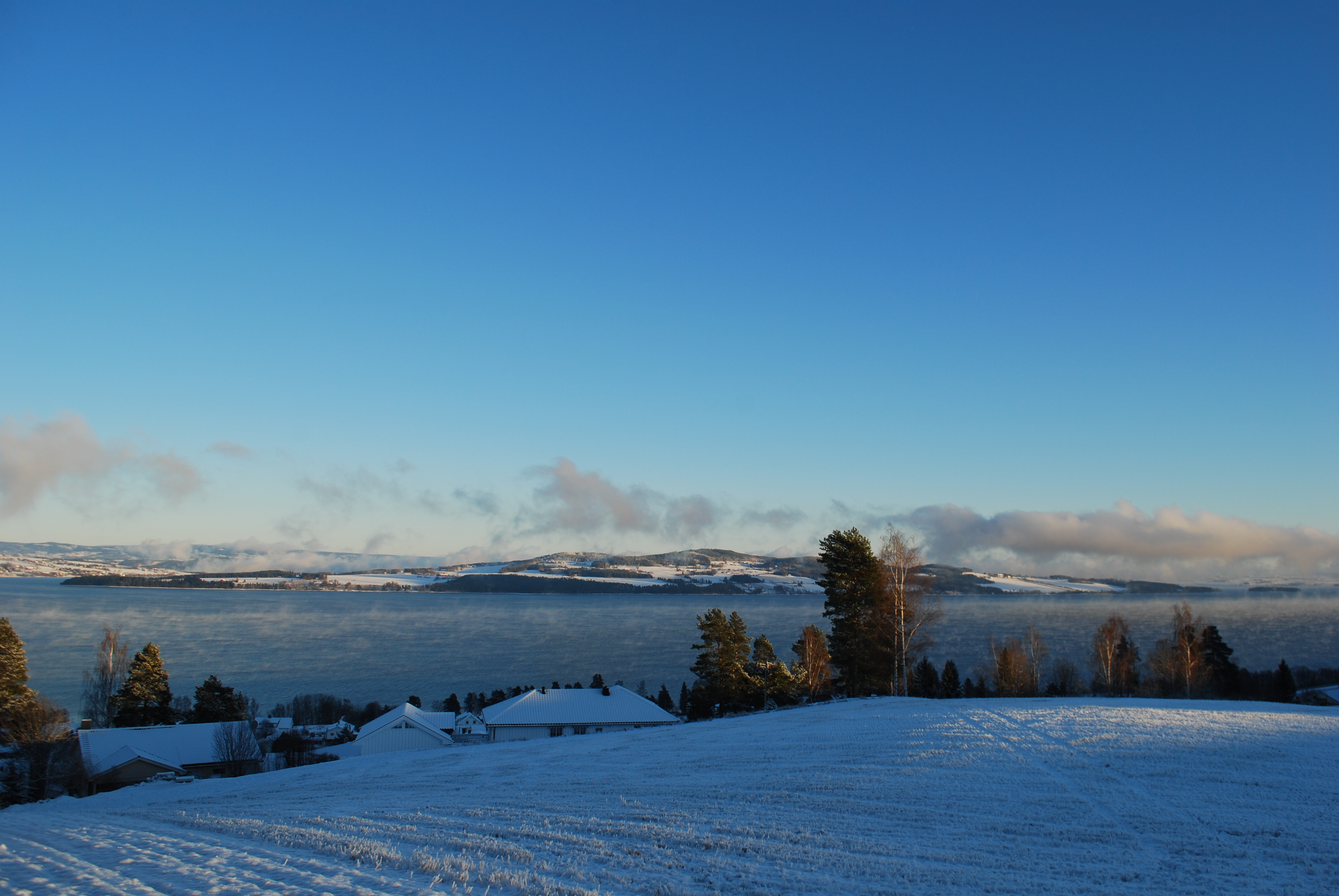 View from the east, Kapp